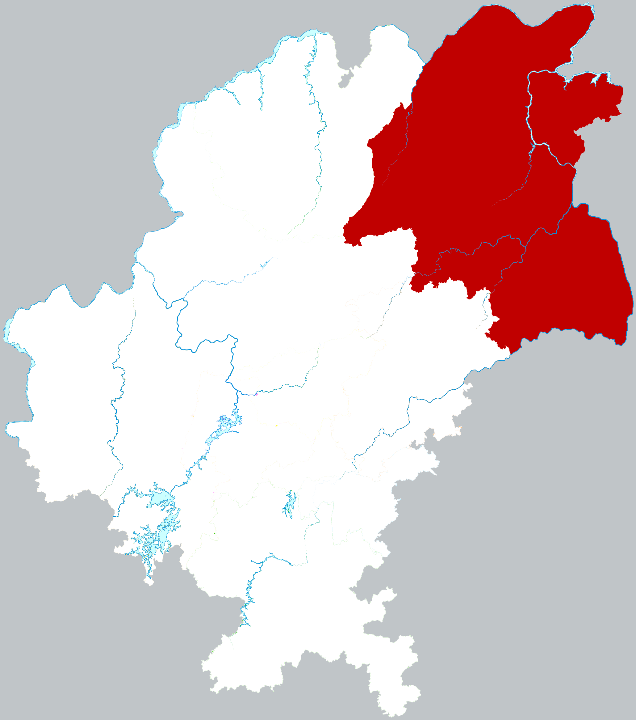 Location of Kaiyang county in Guiyang city, China